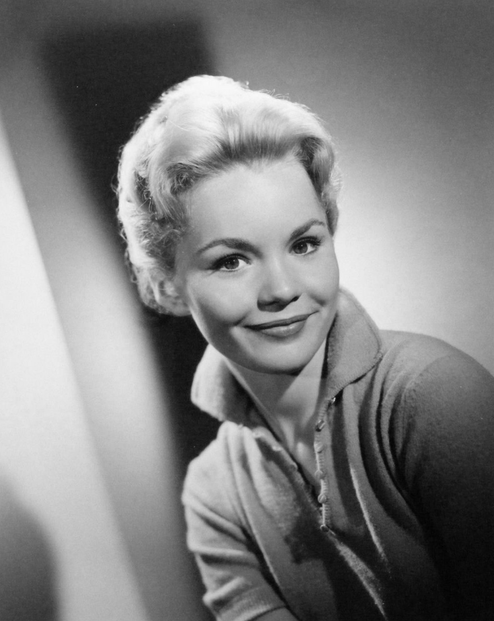 Publicity photo of Tuesday Weld.